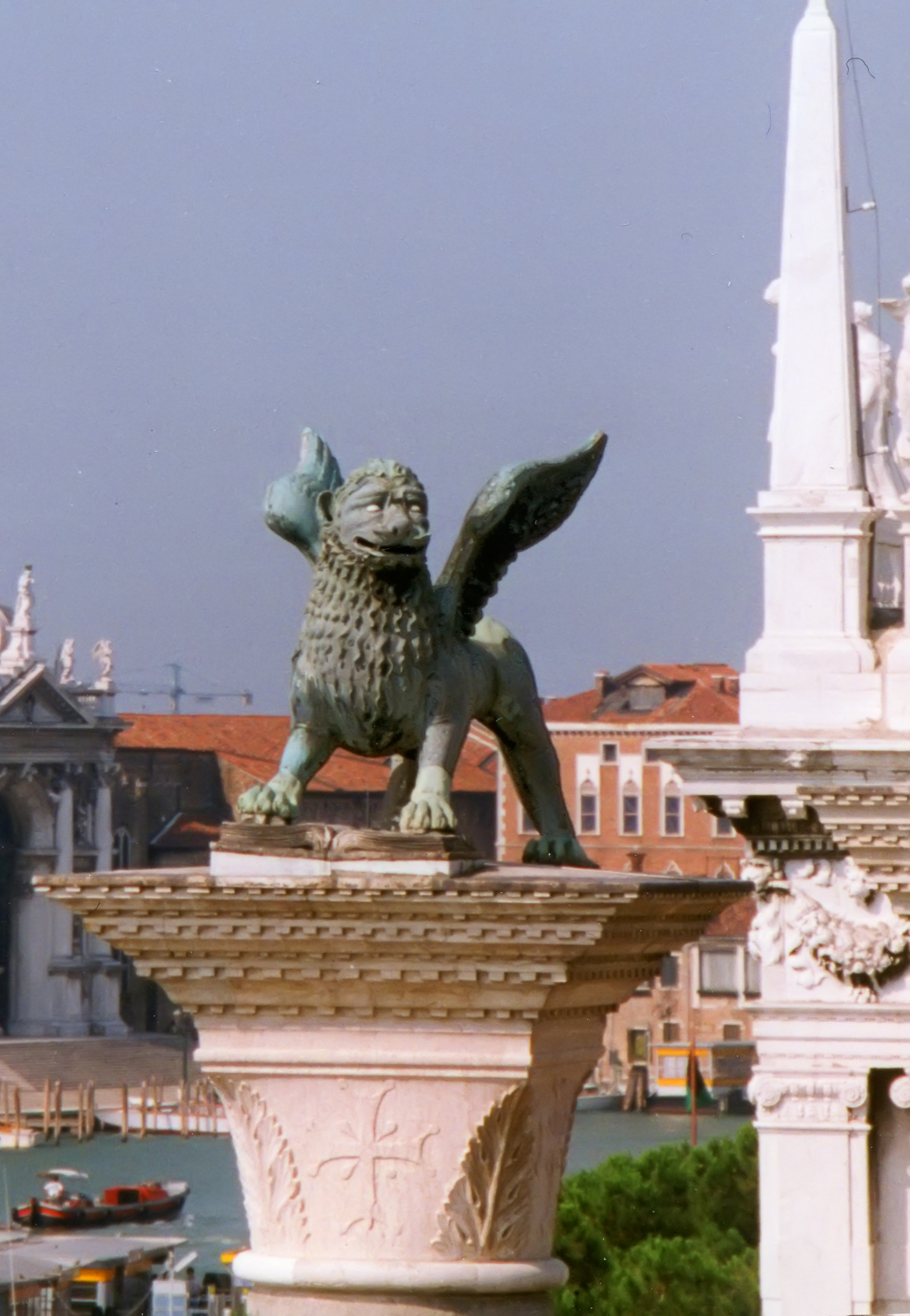 The Lion of St Mark on top of a column in the Piazzetta in Venice, seen from the Doges Palace